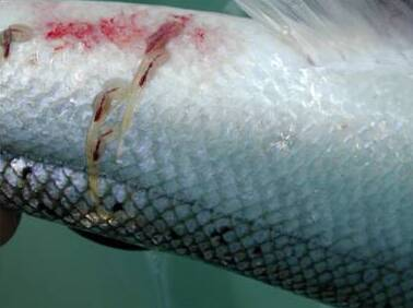 Sea lice, L. salmonis, on farmed Atlantic salmon, New Brunswick, Canada